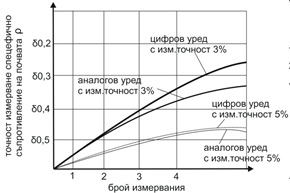 Charactiristics of Grounding resistance testers (analog and digital testers)